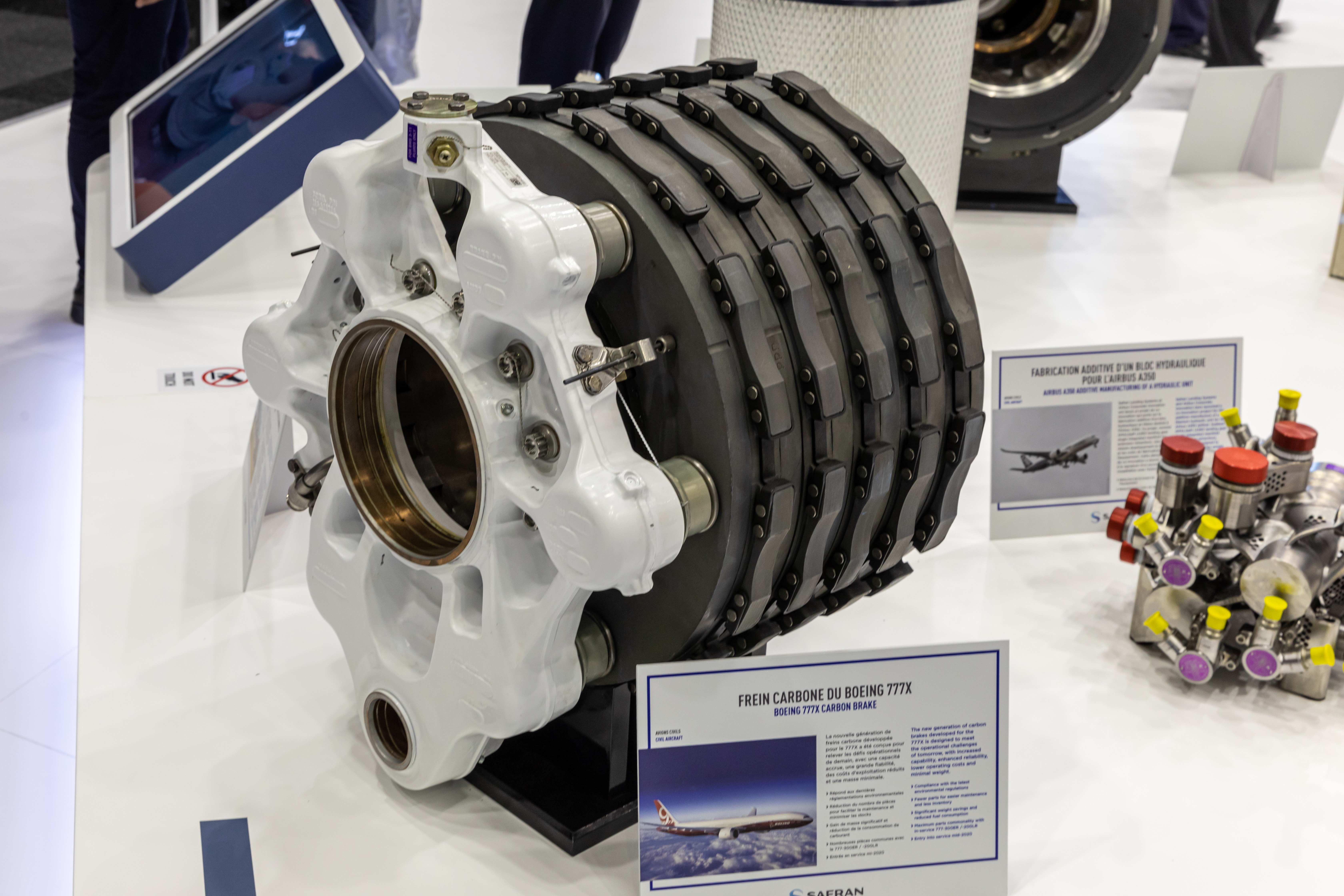 Paris Air Show 2019